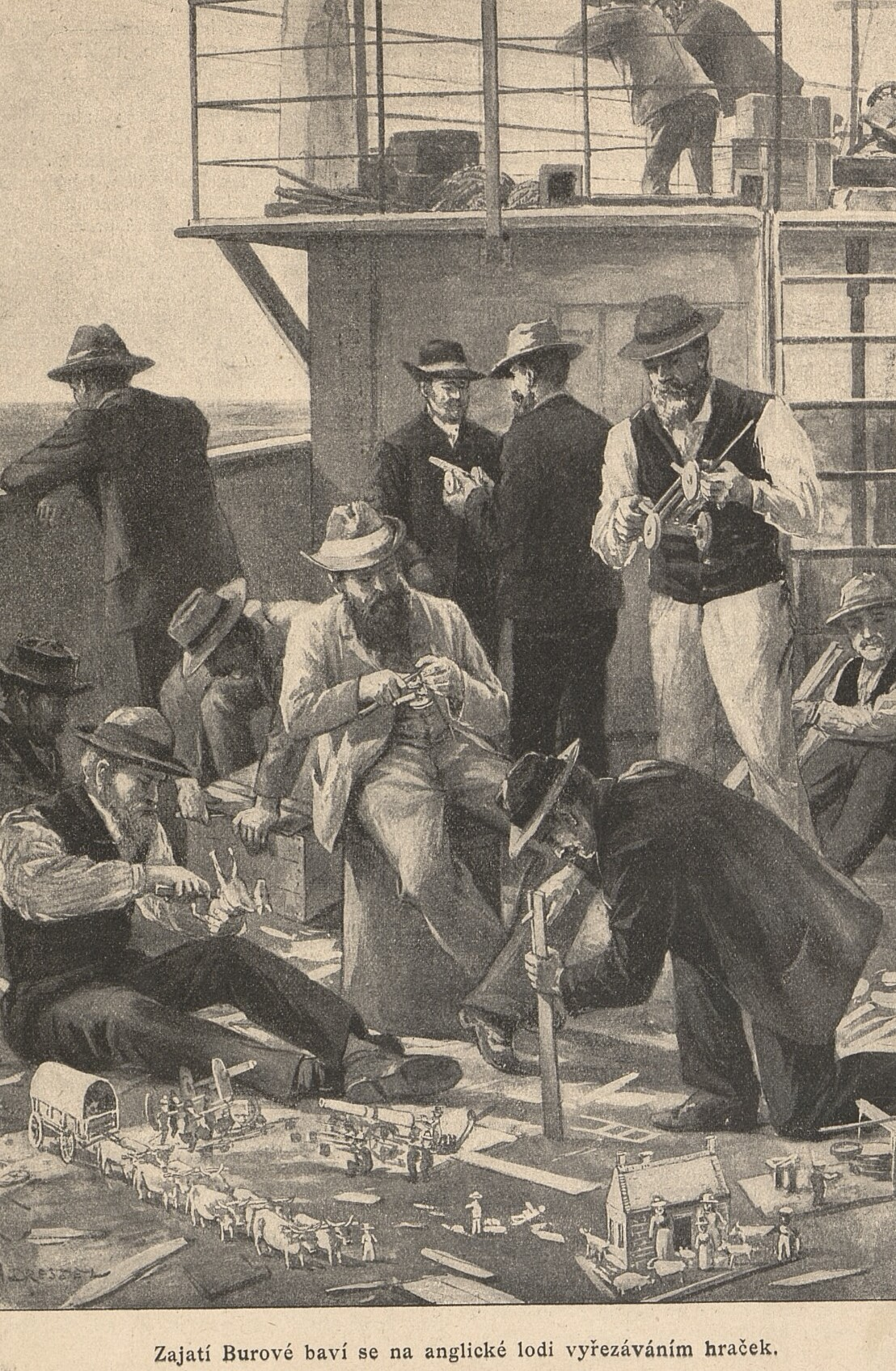 Captured Boers on a Brittish ship, 1922